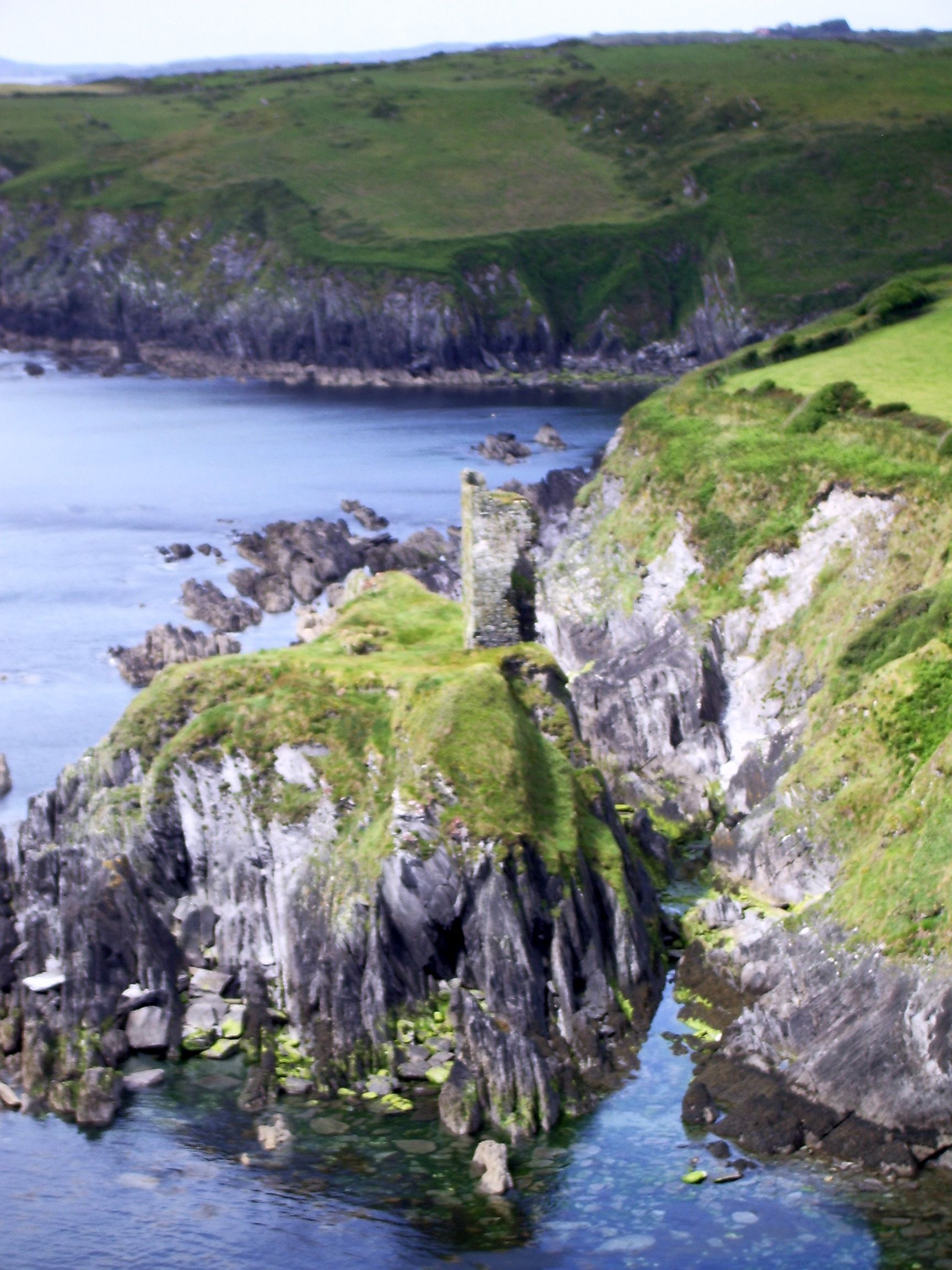 Downeen Castle, Rosscarbery